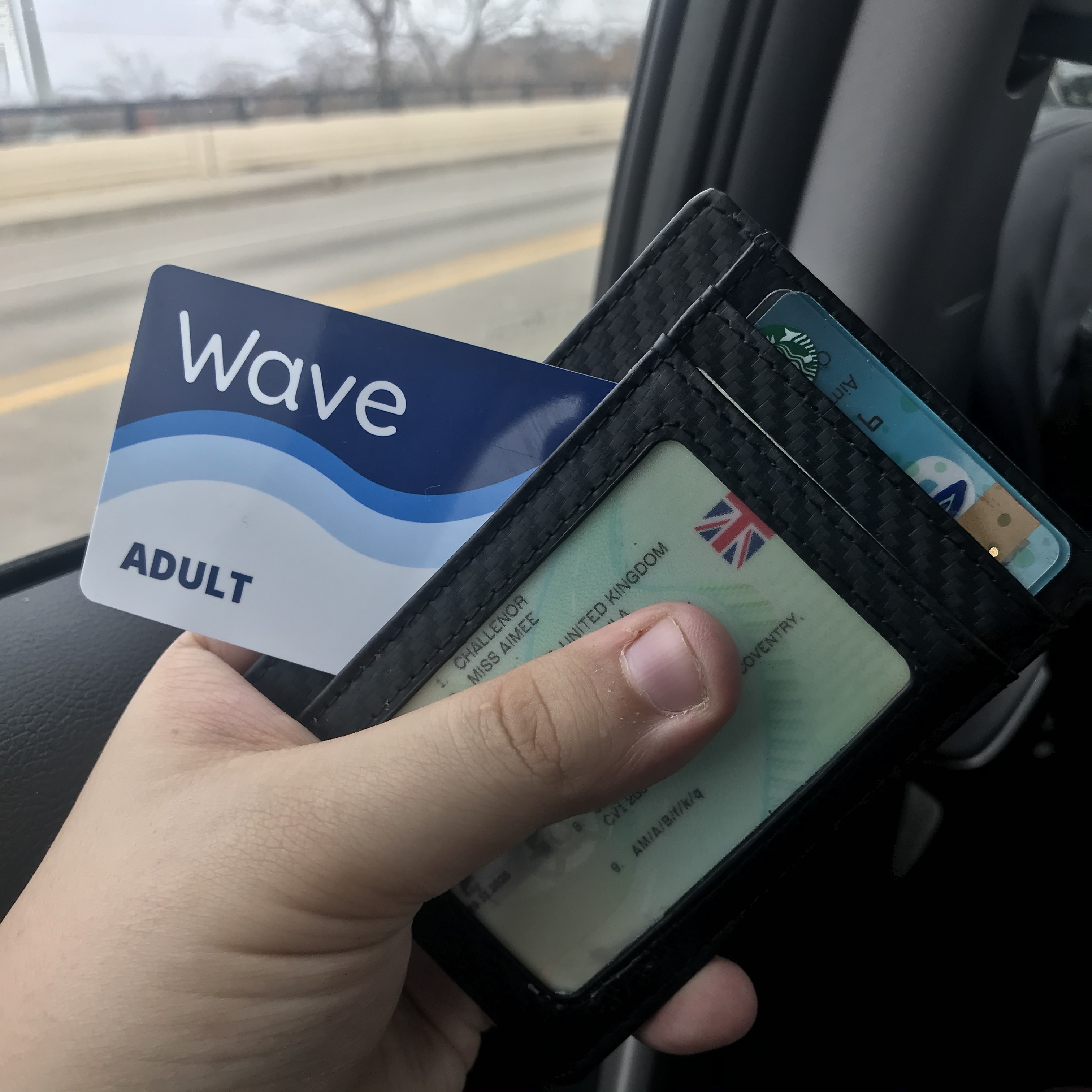 The Wave contactless smart card for use on the Rapid buses in Grand Rapids, Michigan. Visible in the card holder is also a UK Provisional Driving License.